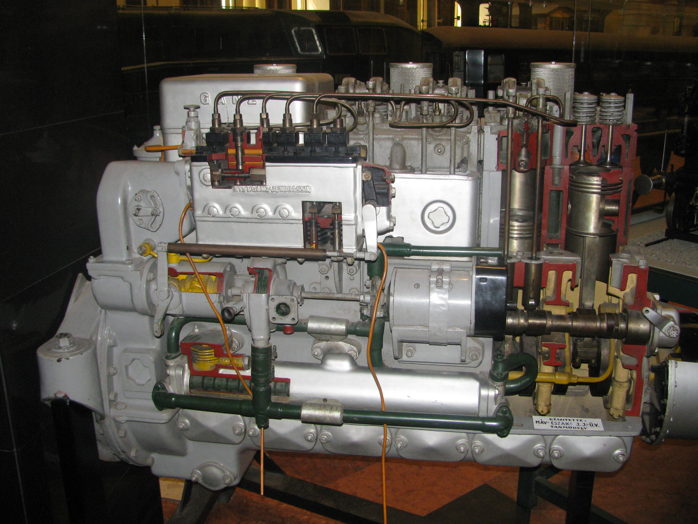 Ganz-Jendrassik diesel engine from 1932. The engine was designed by György Jendrassik and made by Ganz & Co. for a series of branchline railcars. The engine type was famous due to its reliability and low fuel consumption. By 1934, six companies had bought the manufacturing licence. The cold start was carried out by opening the inlet valve at the end of the stroke so that the incoming air got heated on the valve. Type: VI JaR 135 Cylinder configuration: six in-line Max. output: 88 kW (120 hp) at 1350 rpm.